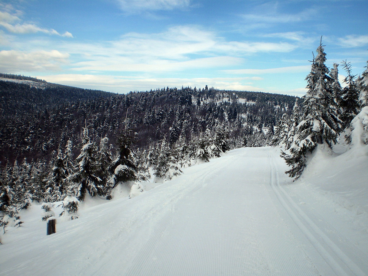 Střední vrch aka Homole in Eagle Mountains